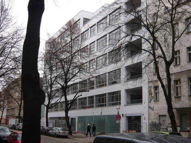 The Carloft prototype building in Berlin-Kreuzberg